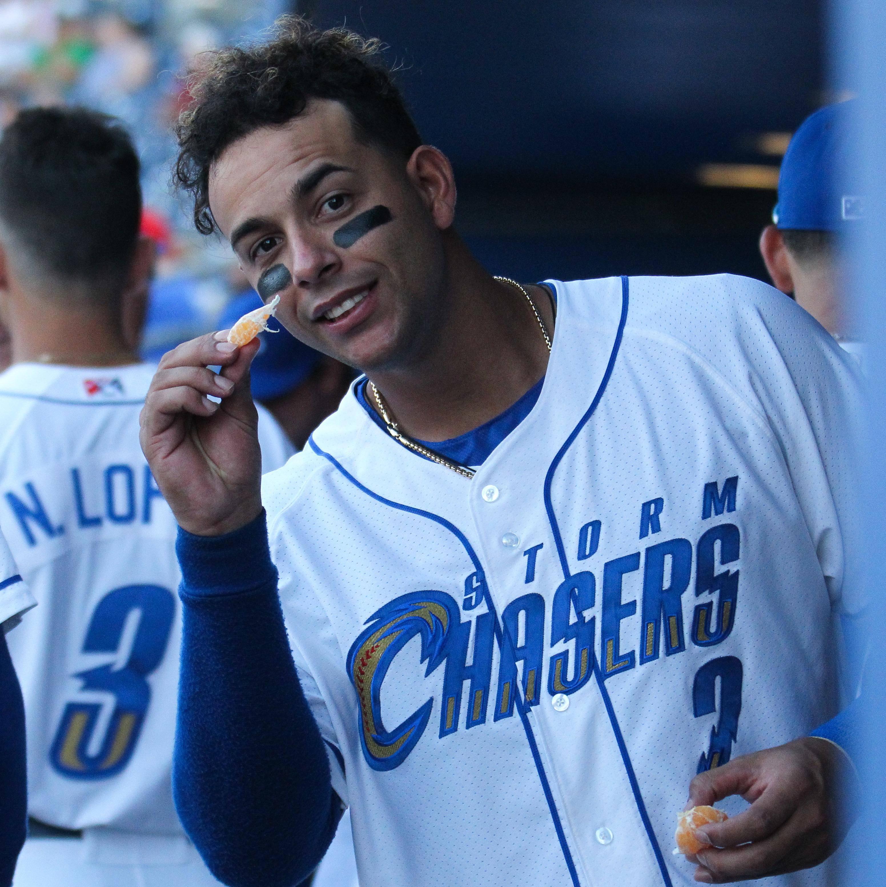 Ramón Torres with the Omaha Storm Chasers in 2018